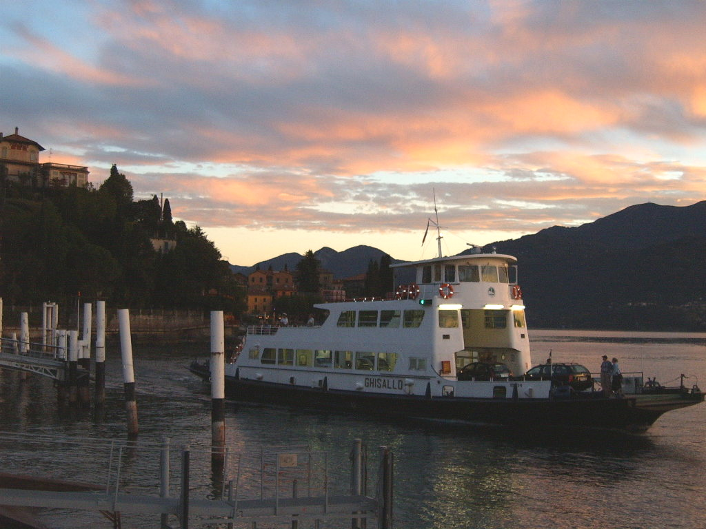 Ferry Ghisallo, Varenna, Lago di Como (Italy)